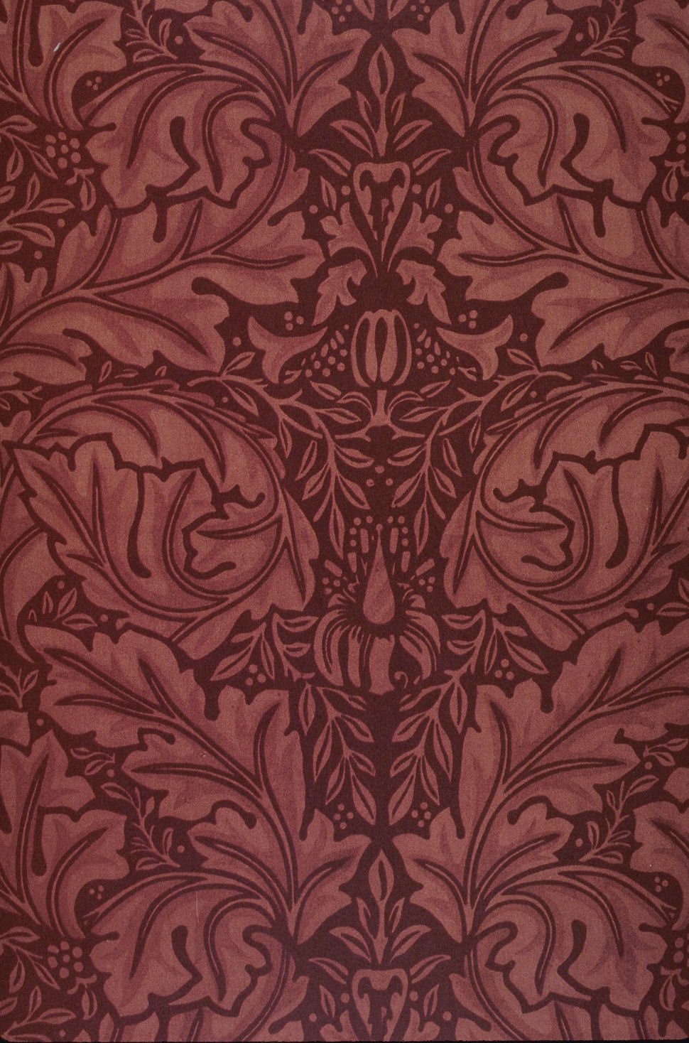 Acanthus block-printed cotton velveteen designed by William Morris. (Identification from Linda Parry, ed.: William Morris, Abrams, 1996, ISBN 0-8109-4282-8 p. 264; Linda Parry: William Morris Textiles, New York, Viking Press, 1983, ISBN 0-670-77074-4, p. 149)